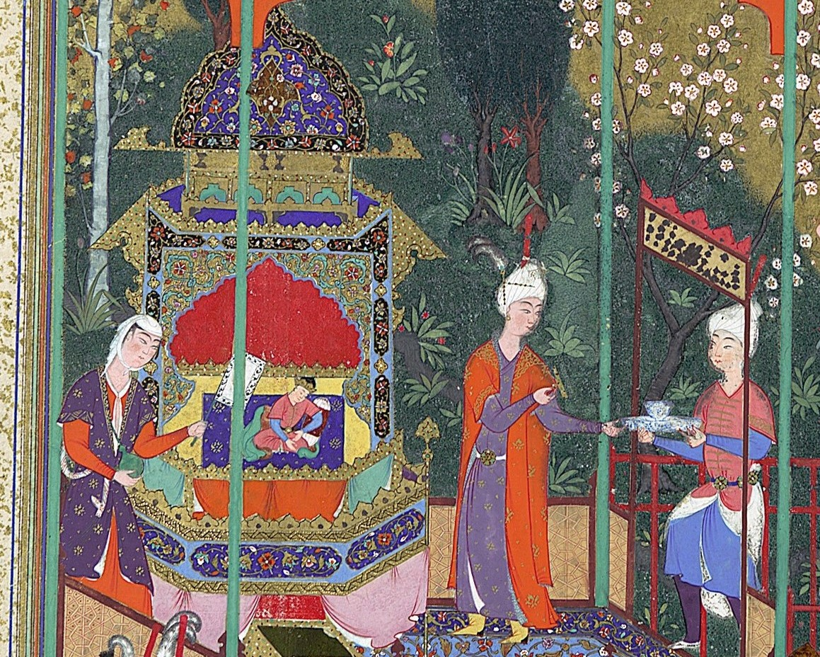 Folio from an illustrated manuscript; Codices